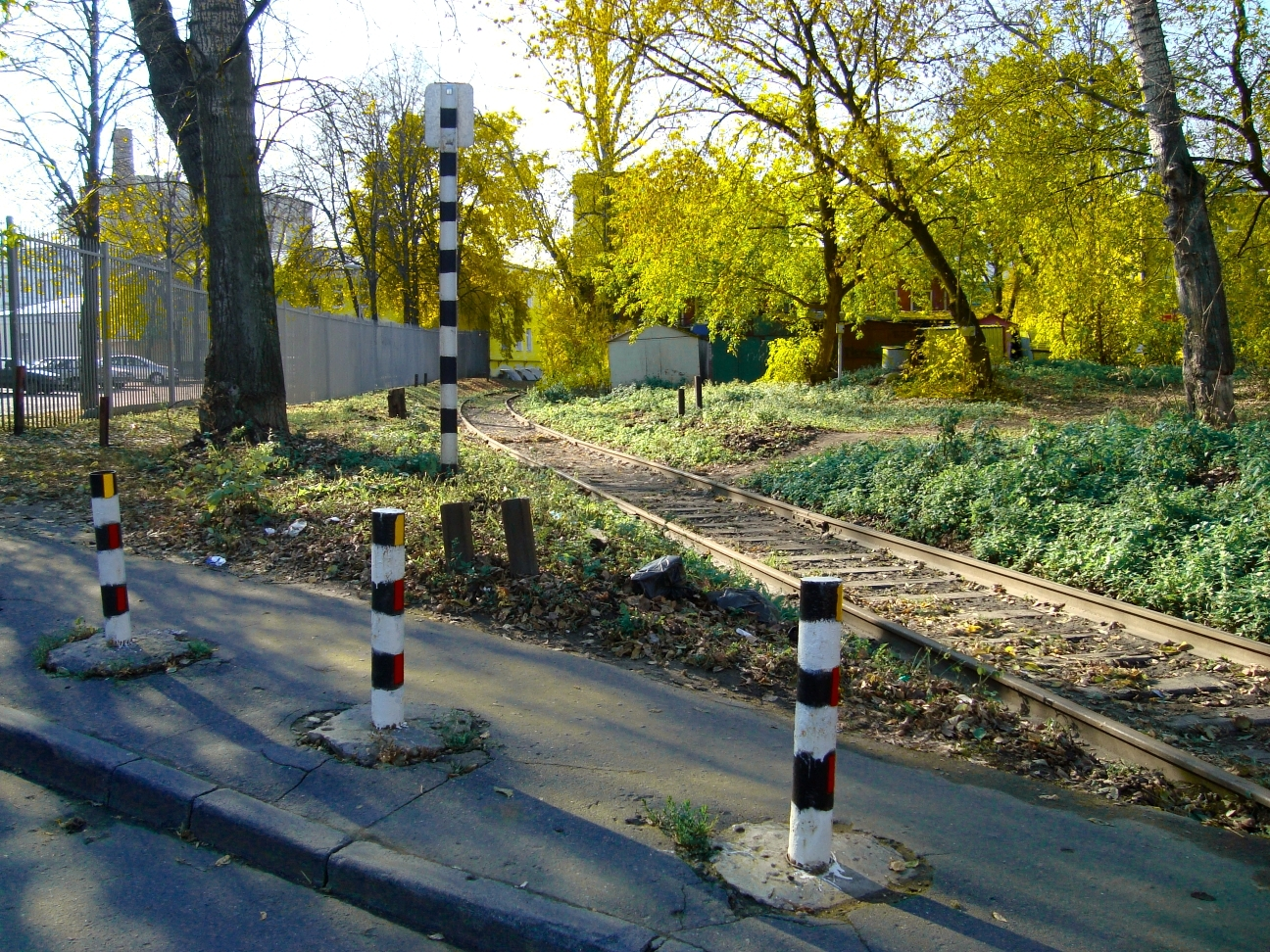 Electrozavod RR line cross 9 Rota street, Moscow